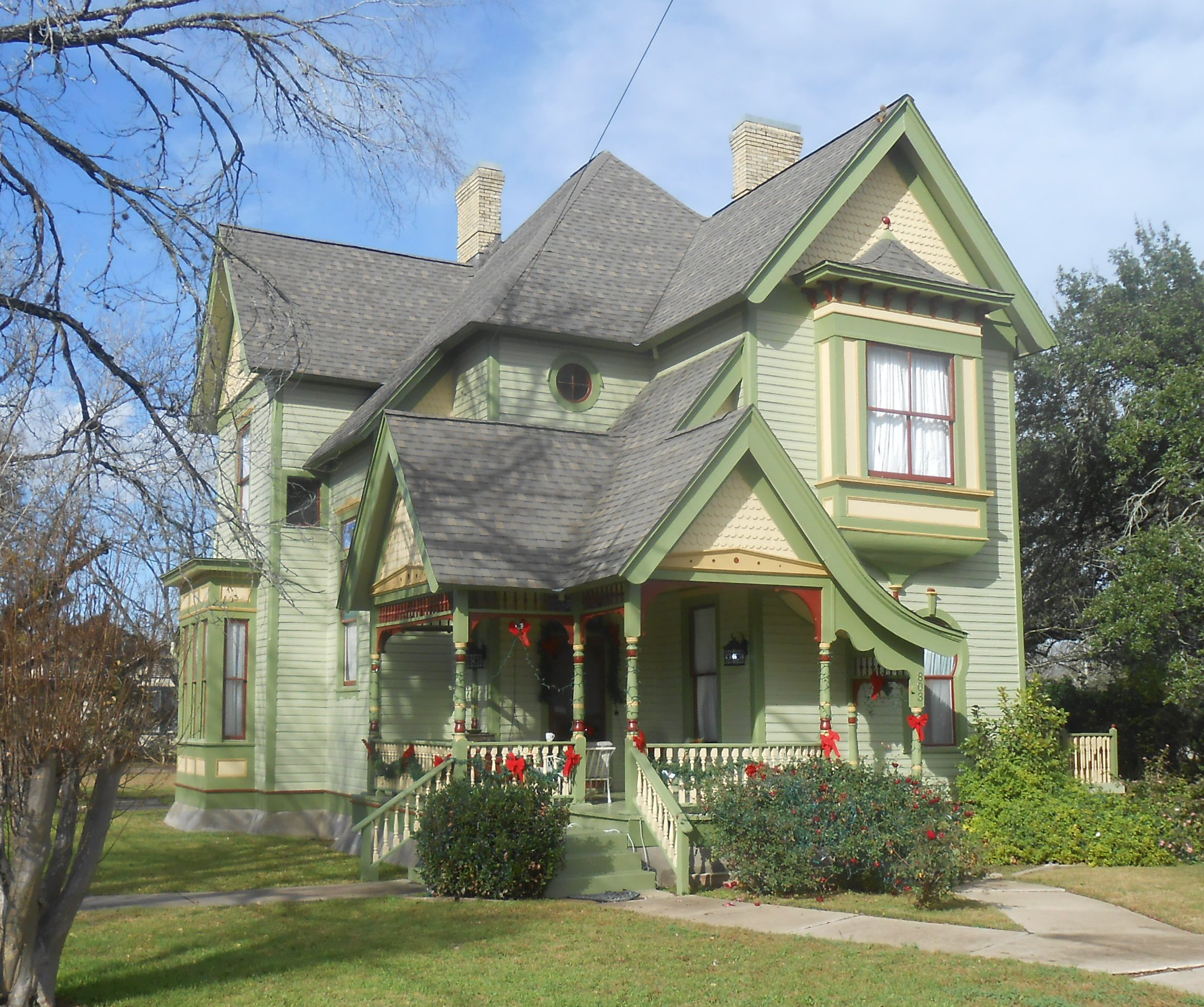 803 Saint Lawrence Street, Gonzales, Texas